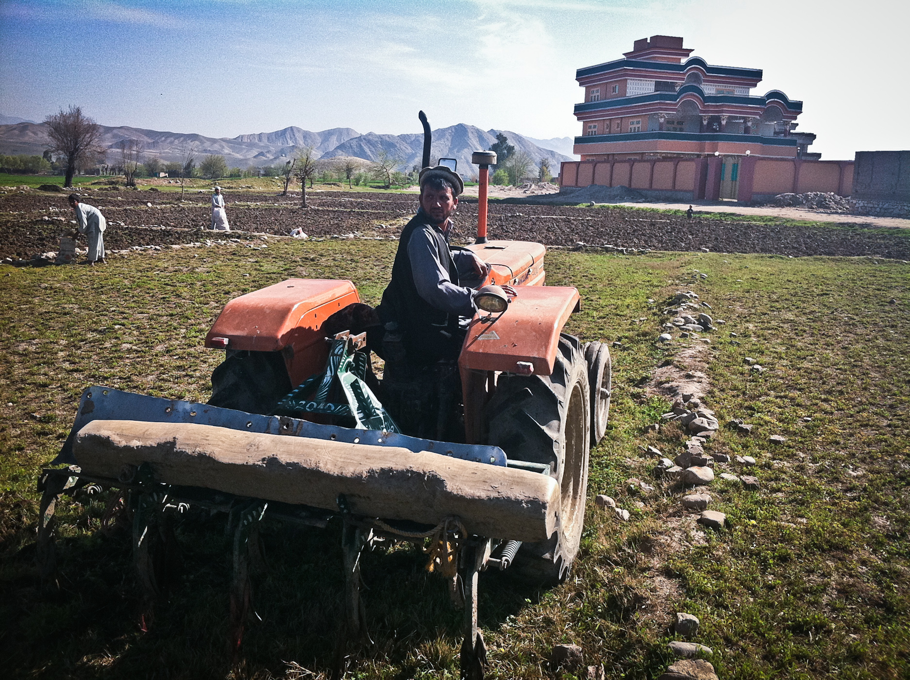 fields around the taj